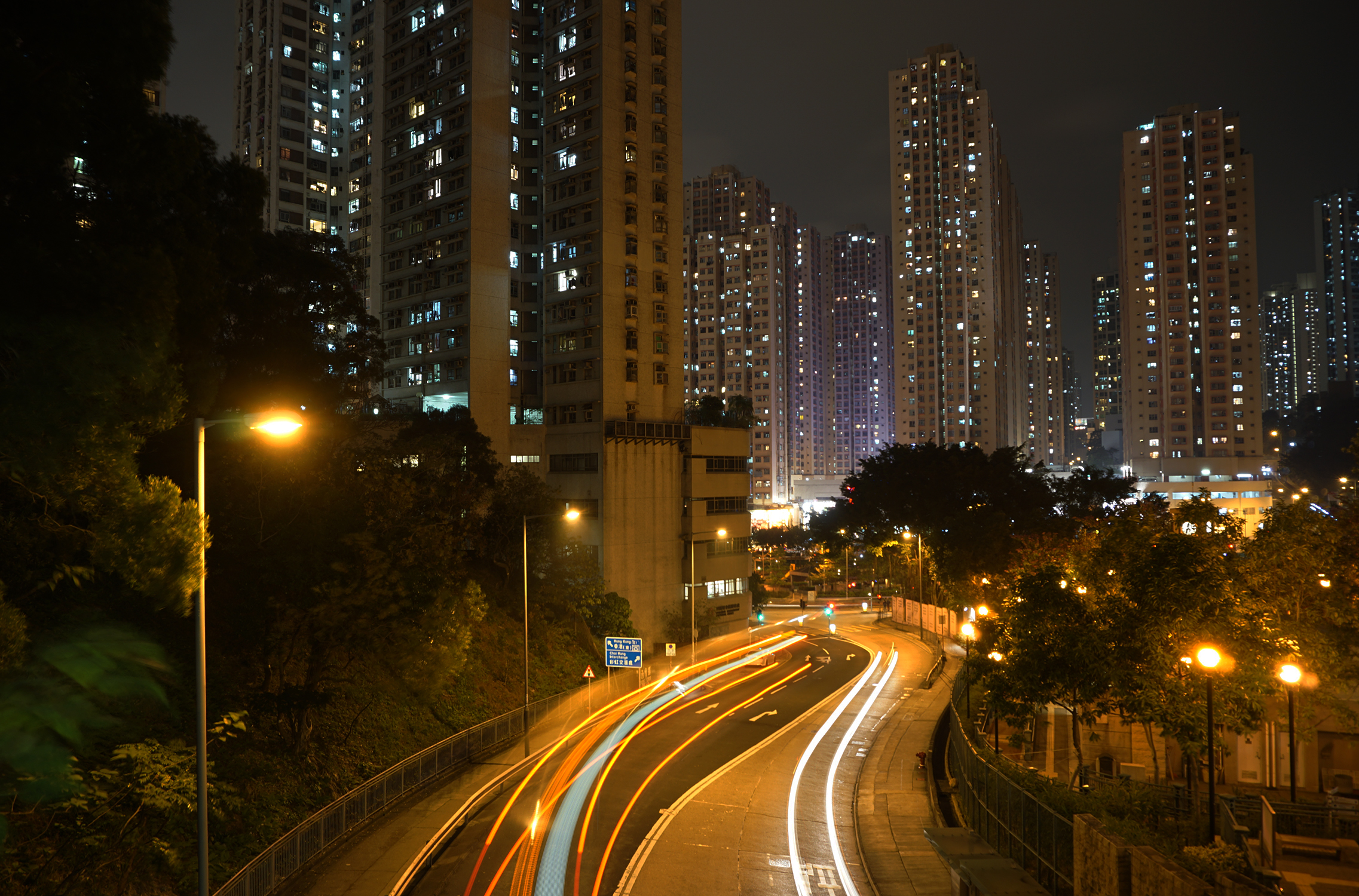 Chun Wah Road in Kowloon Bay, Hong Kong.